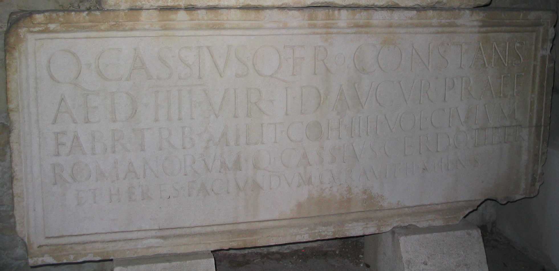 Ancient Roman inscription from Salona now in the archaeological museum of Split, grave of Quintus Cassius Constans, roman knight. CIL III, 8737.